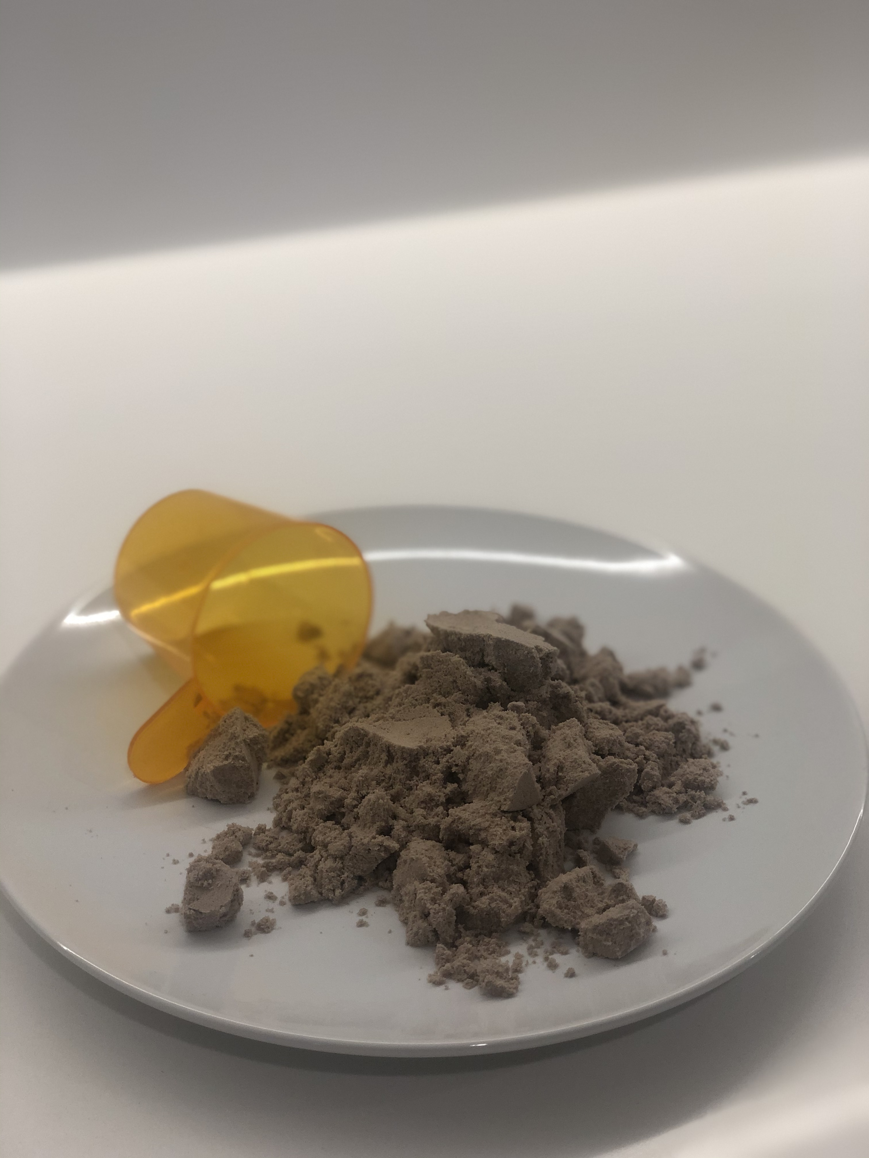 Chocolate flavoured pea protein powder pictured with its serving scoop.